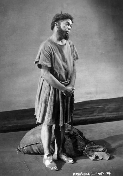 Photograph of Arthur Wilson as Androcles in the Federal Theatre Project production of Androcles and the Lion at the Lafayette Theatre